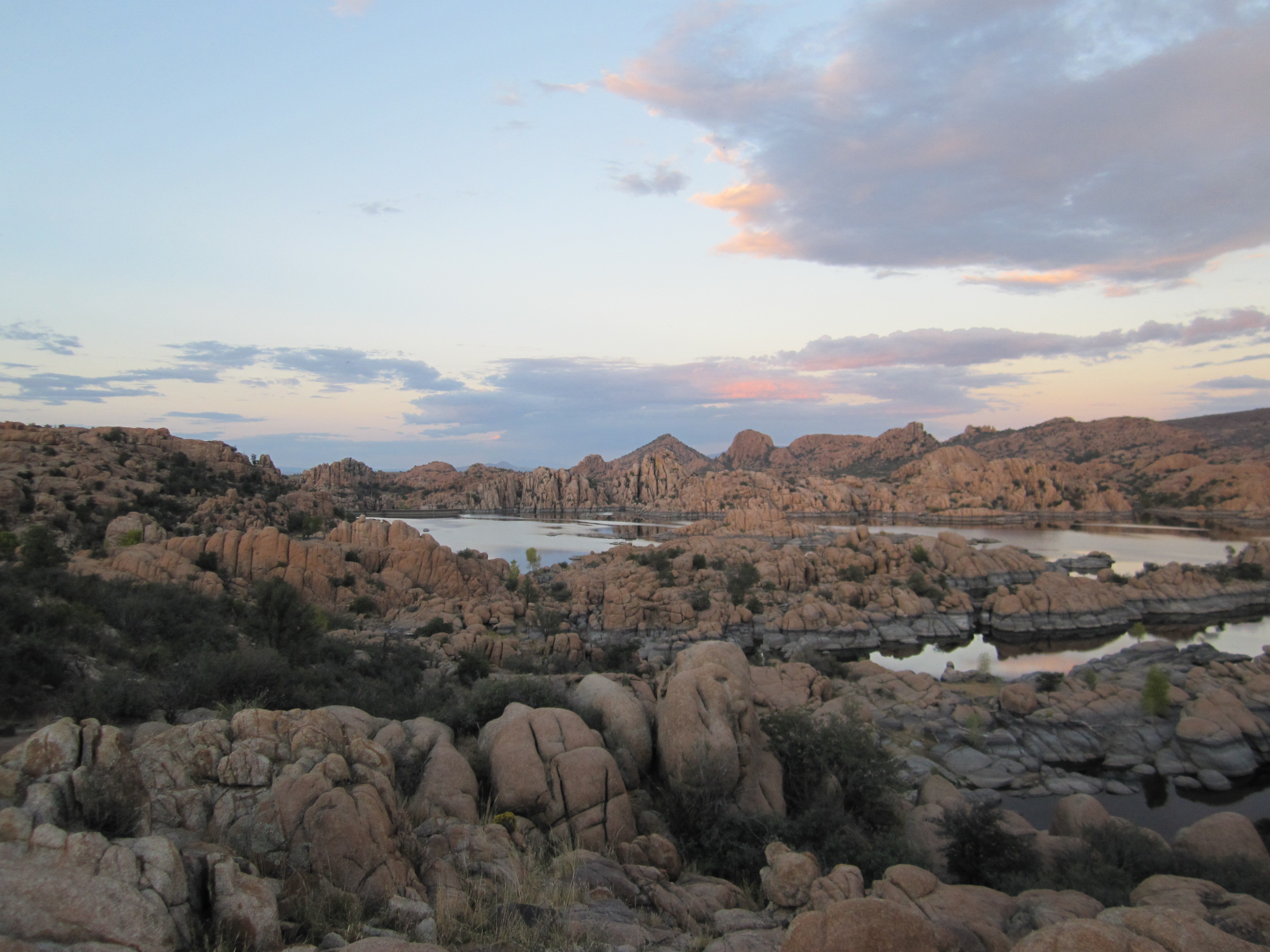 Granite Dells overview, including Watson Lake — in Yavapai County, Arizona.